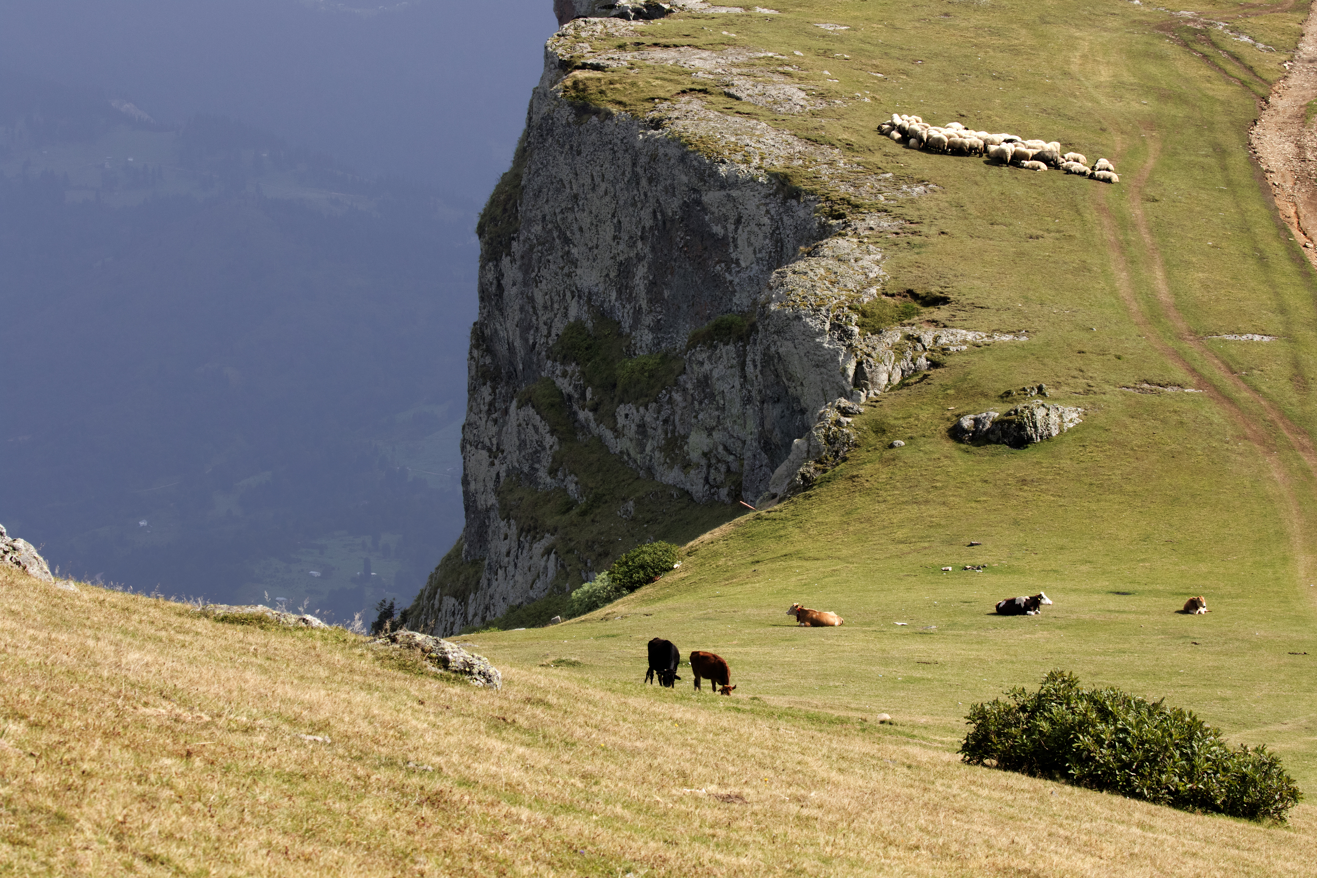 Karayaka sheep flocks grazing at the eastern pastures of Sisdağı Mt. Gökçeköy, Şalpazarı - Trabzon, Turkey.